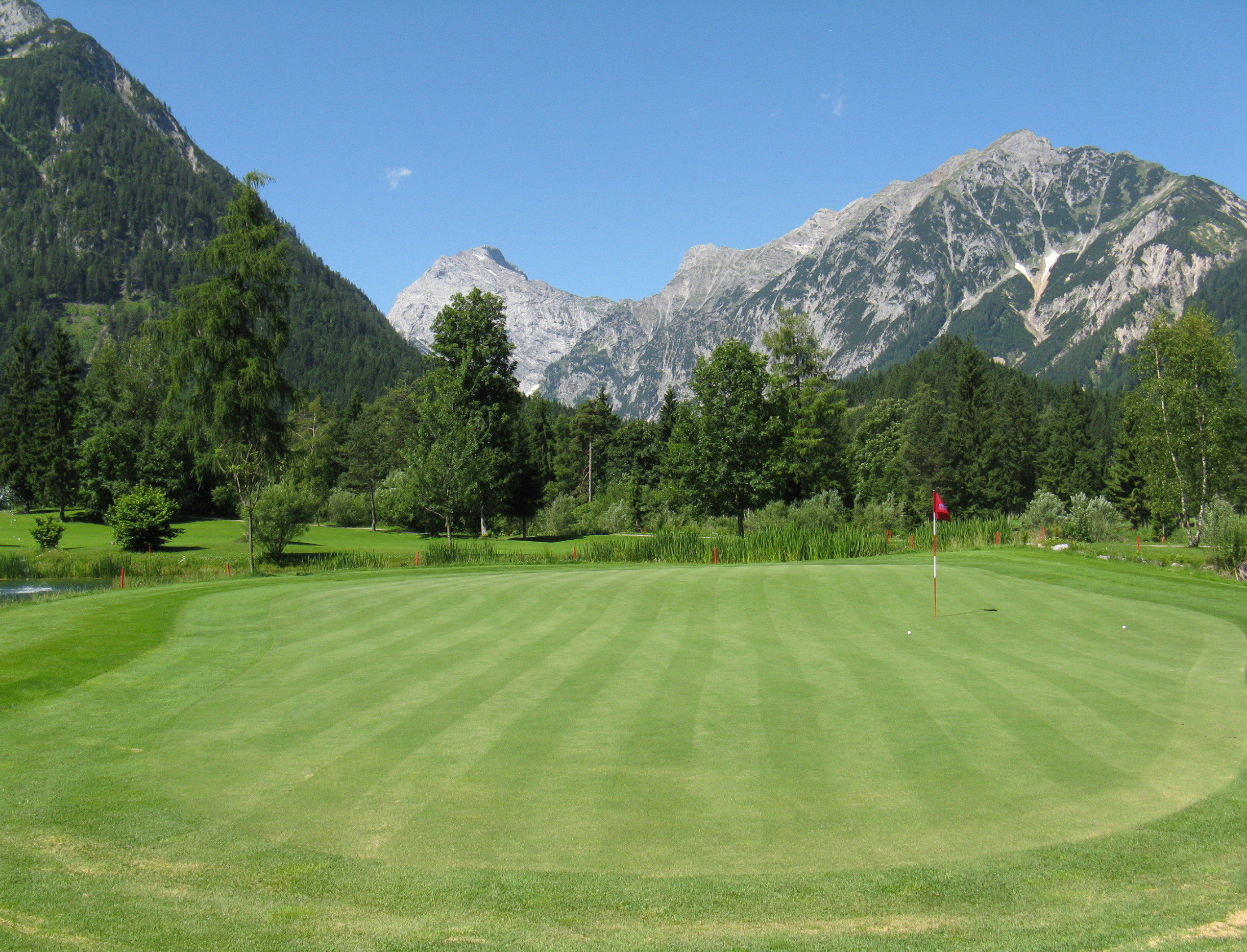 Green 2 of the Golf Club Achensee in Pertisau, Austria.